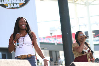 SWV tour back in 2005